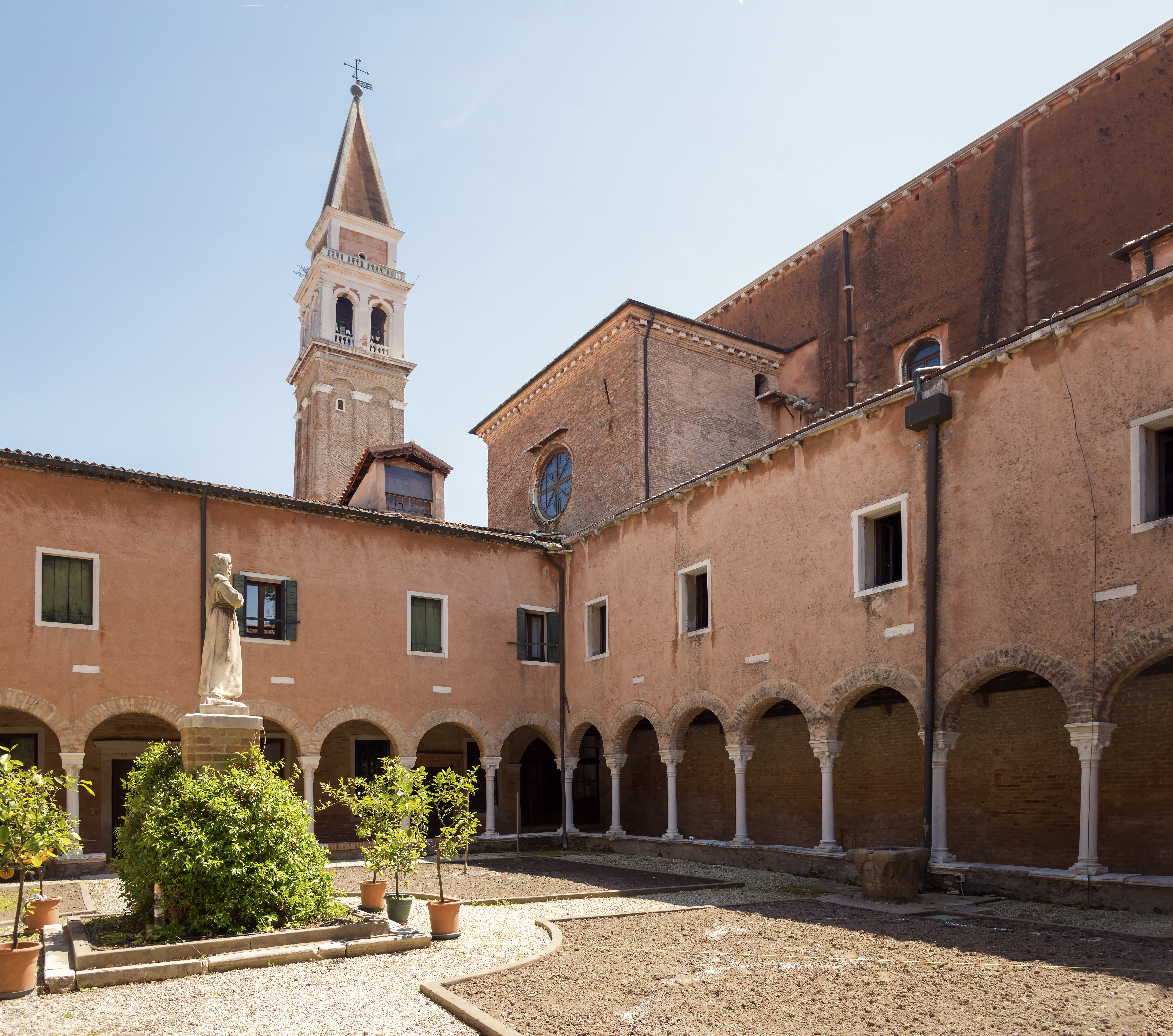 Church San Francesco della Vigna, in Venice, cloiter